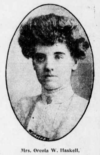 Suffragist Oreola Williams Haskell in the article "Suffragists Plan Susan B. Anthony Birthday Celebration in Brooklyn" in the Boston Daily Eagle (Feb 3 1905 p.22).